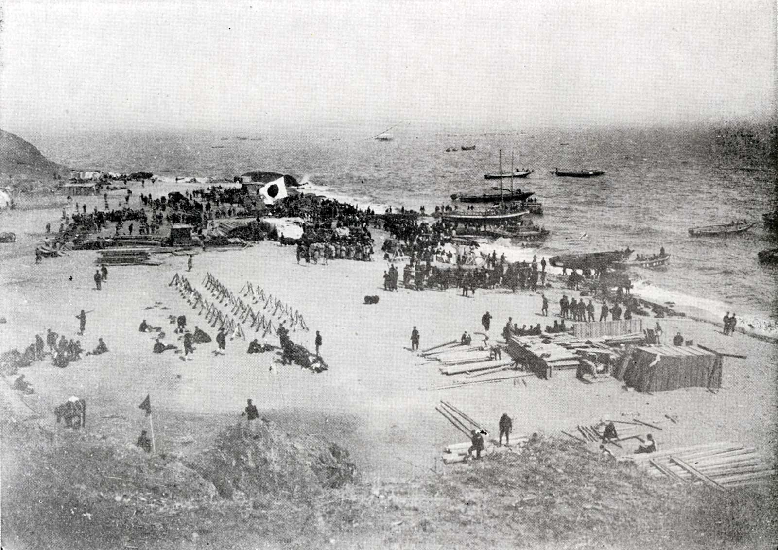 Picture of the Landing of Army soldiers on the Liaodong Peninsula